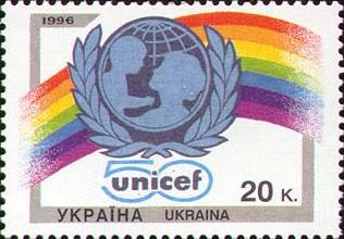 Stamp of Ukraine